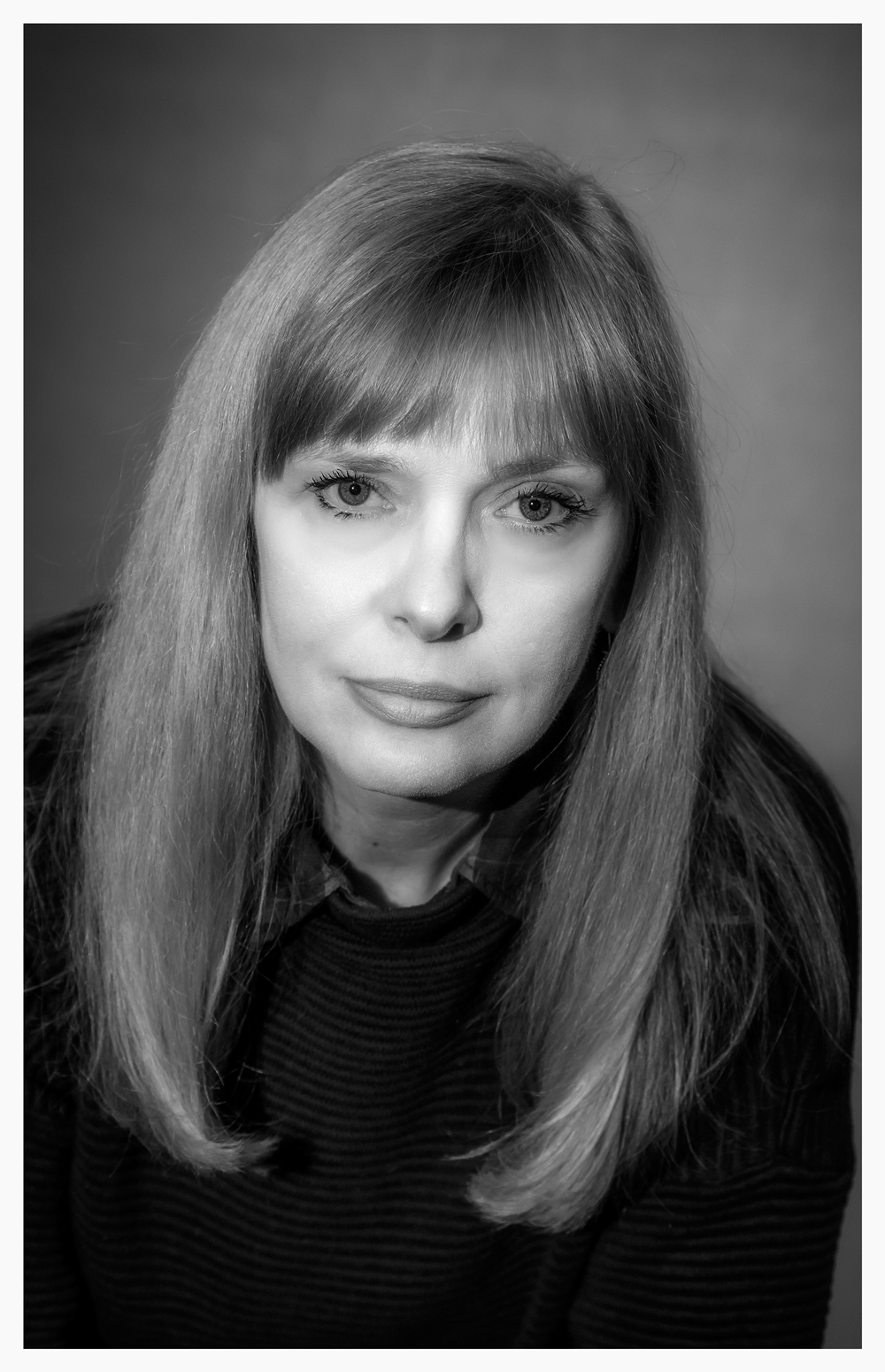 Draginja Voganjac, actress of Serbian National Theatre Srpski (latinica): Draginja Voganjac, glumica Srpskog narodnog pozorišta Српски (ћирилица): Драгиња Вогањац, глумица Српског народног позоришта